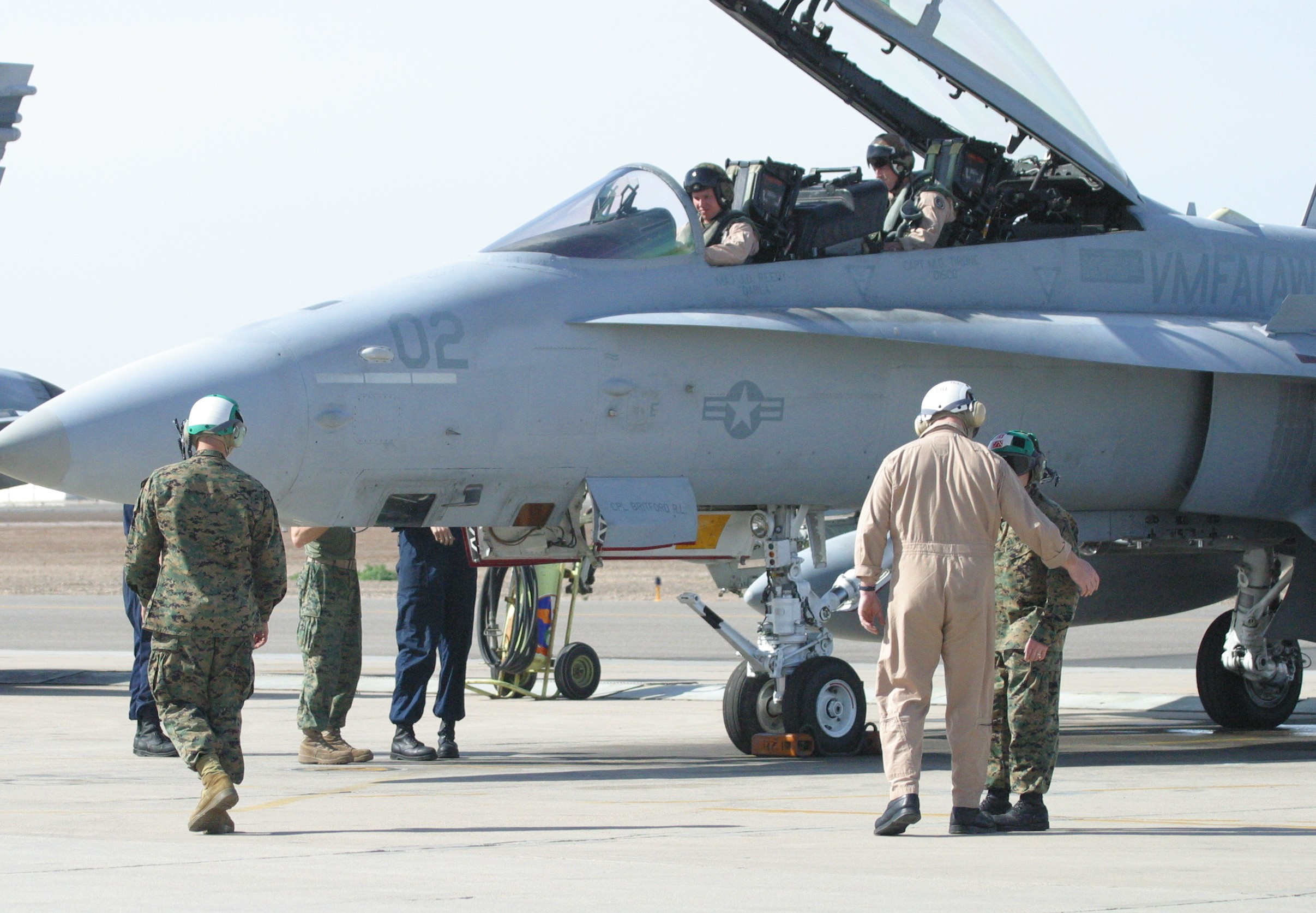 An US Marine Corp F-18 with ATARS in nose